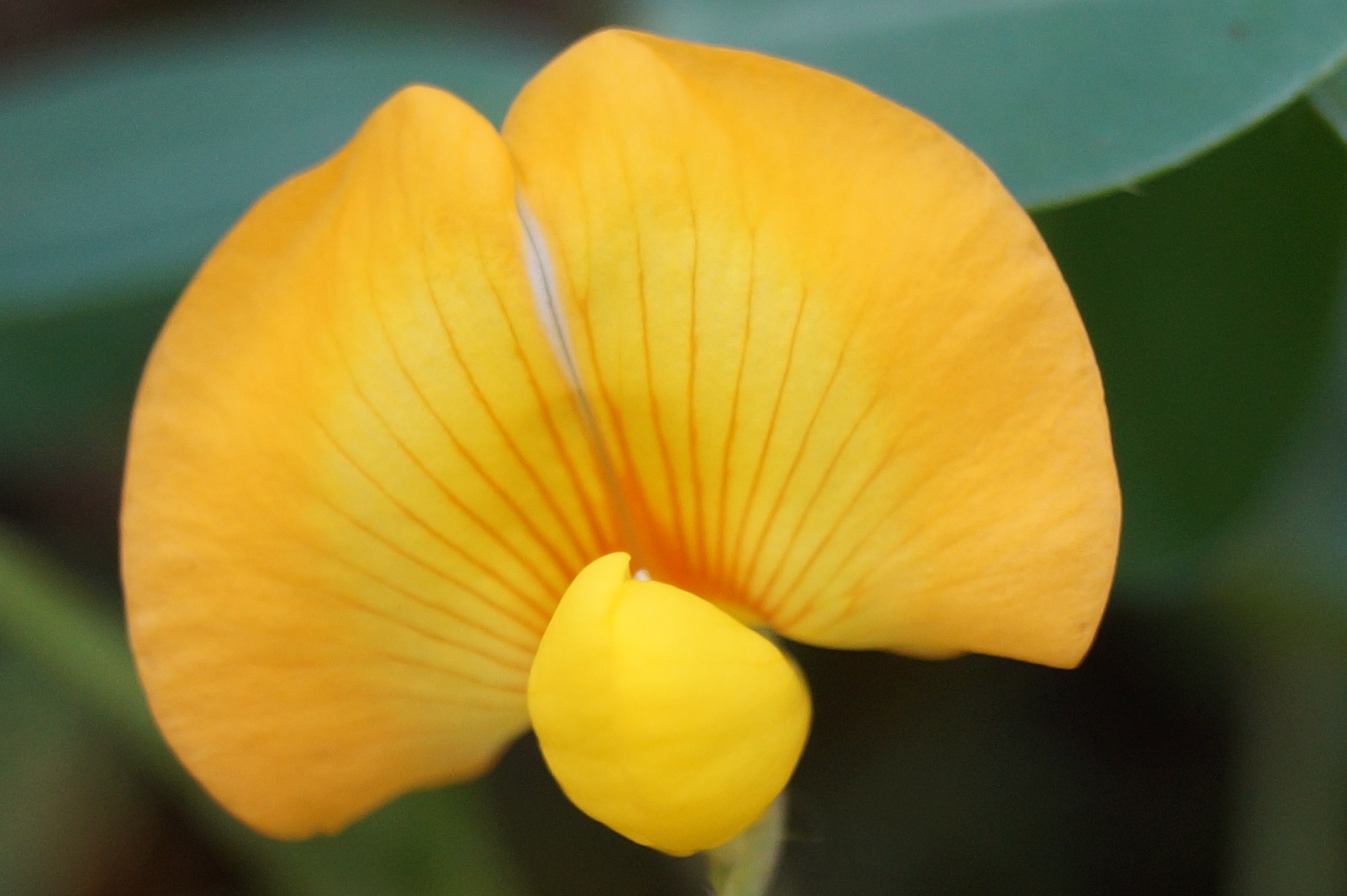 Ground Nut flower at bloom